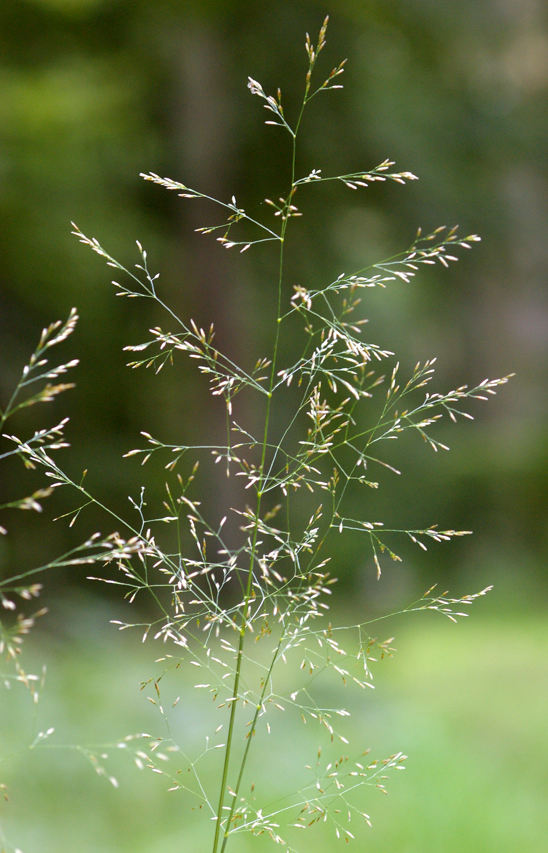 Inflorescence of the grass Deschampsia cespitosa.